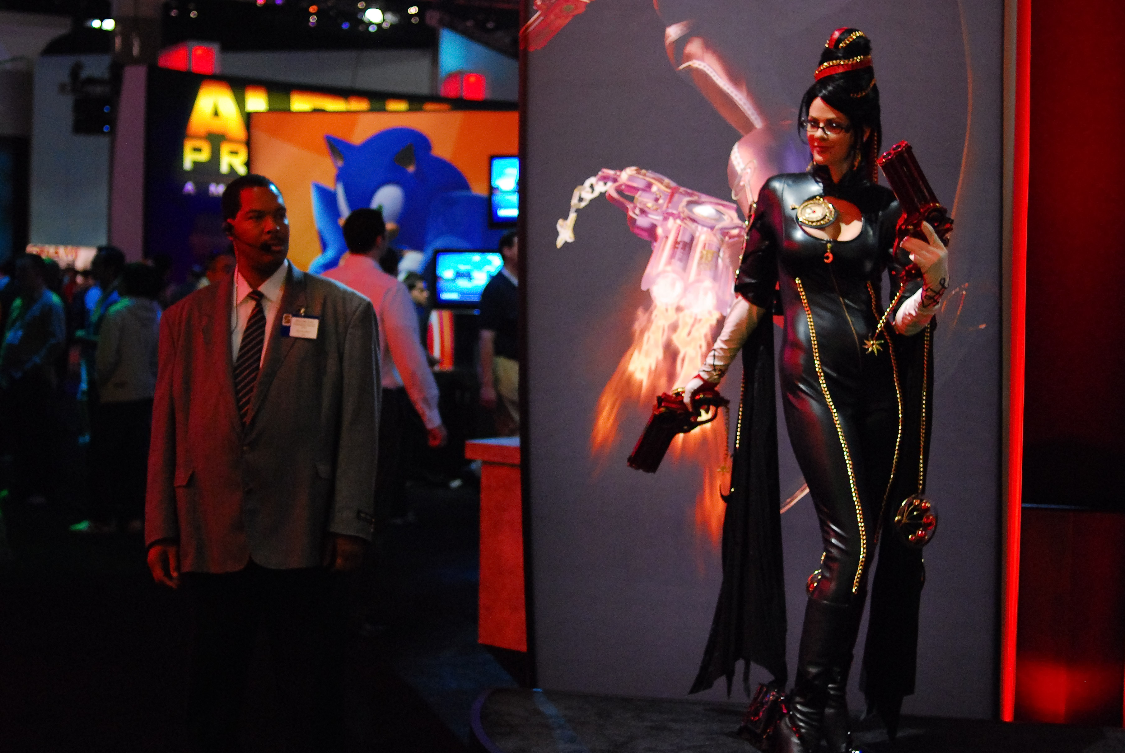 yea, it's just one of those days